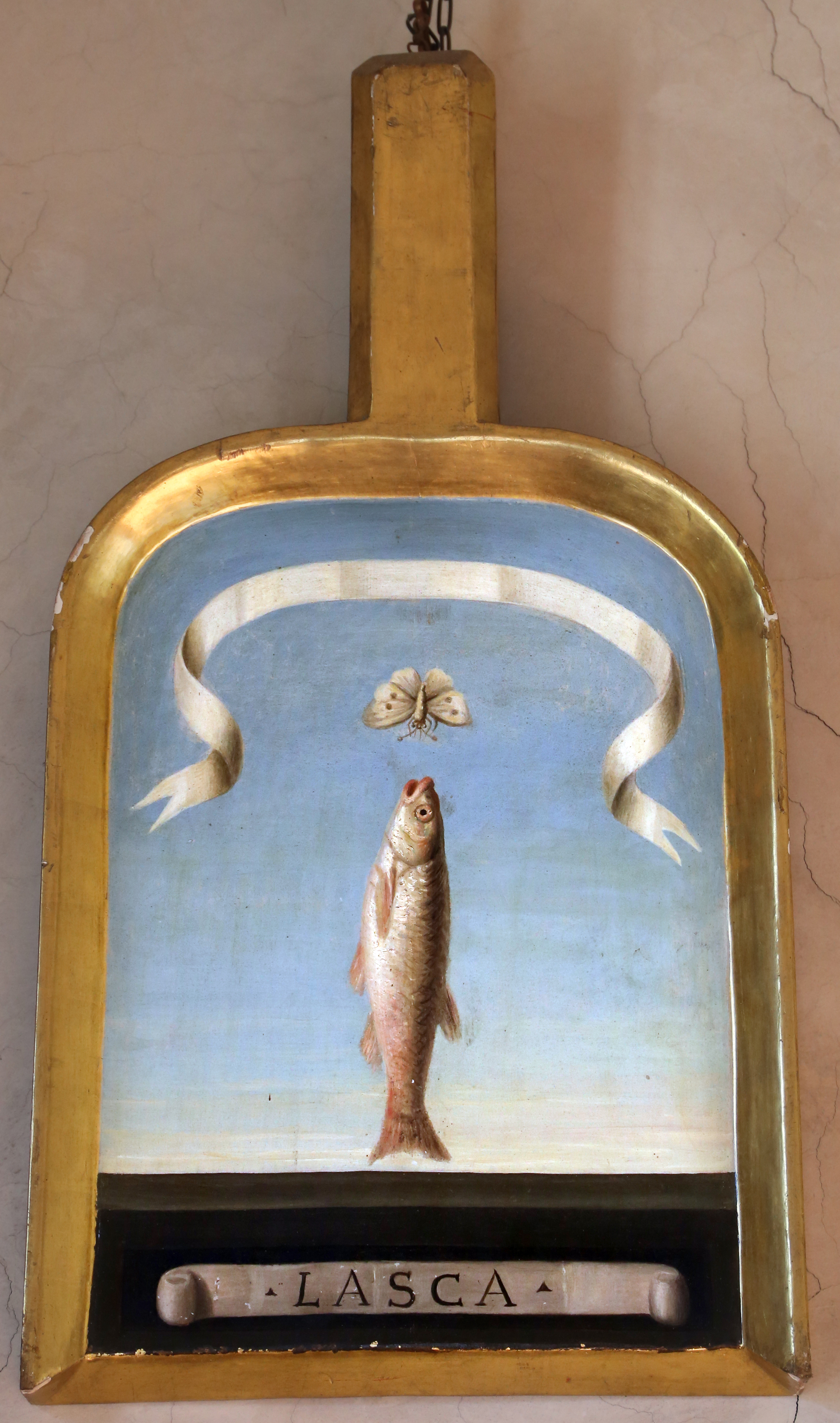 Shovels of Accademici della Crusca